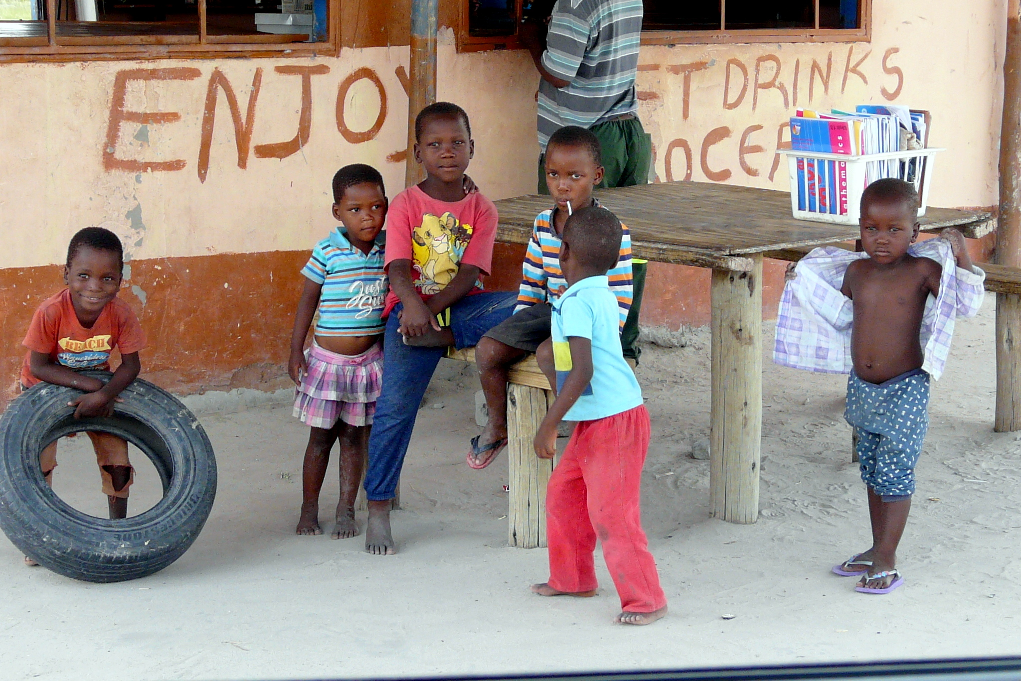 This is an image with the theme "Play" from: Botswana